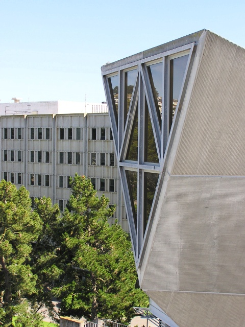 San Francisco State Student Union building, designed by Paffard Keatinge-Clay in 1969-1973. J. Paul Leonard Library in the background.